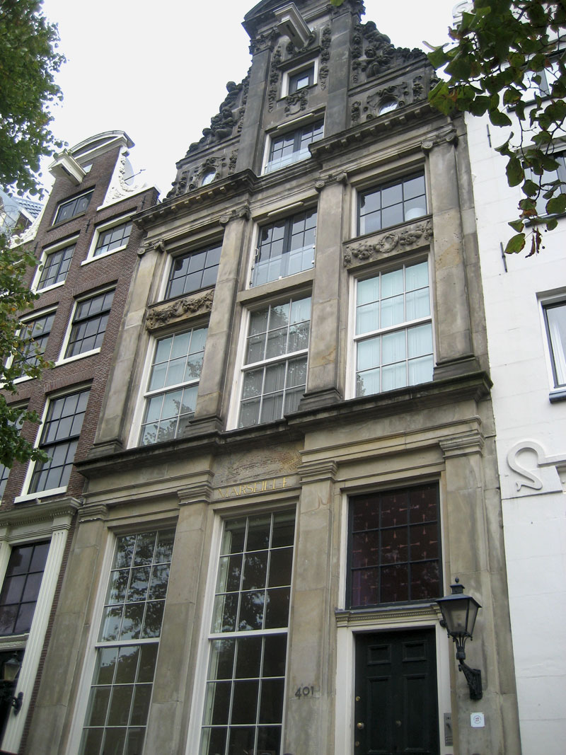 Fotografiemuseum Amsterdam — Huis Marseille, Keizersgracht 401 in Amsterdam